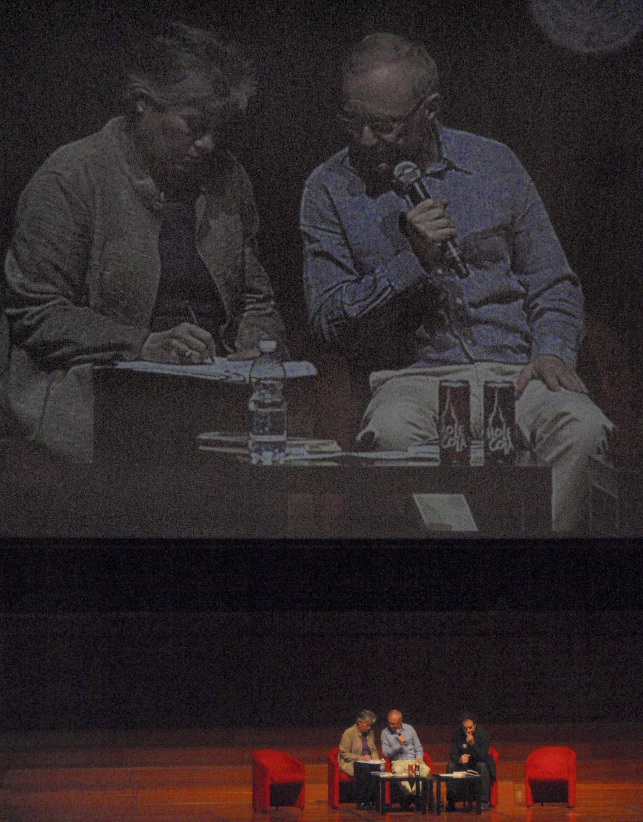 David Grossman at the presentation of his book in 2013 in Turin